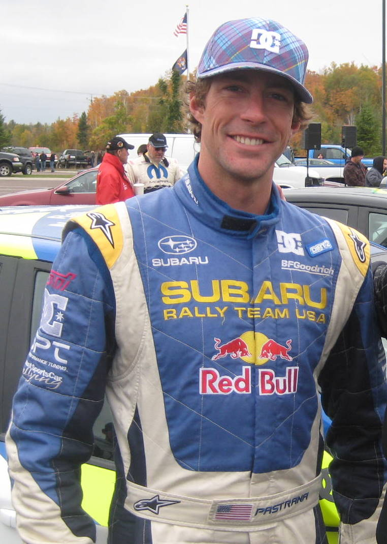 Travis Pastrana during a public appearance prior to the 2009 Lake Superior Performance Rally